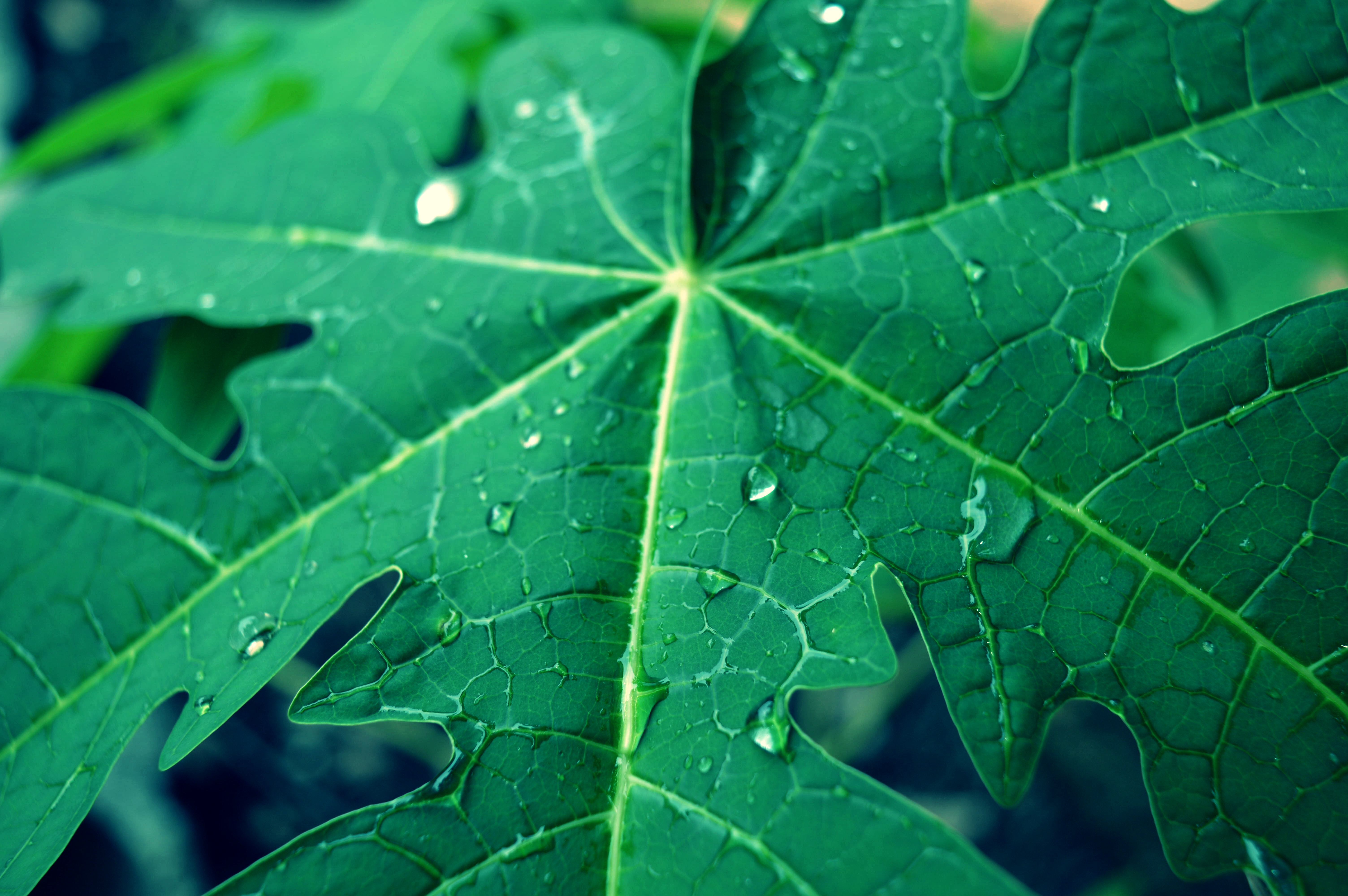 Beautiful raindrops on the leaf veins during monsoon,India